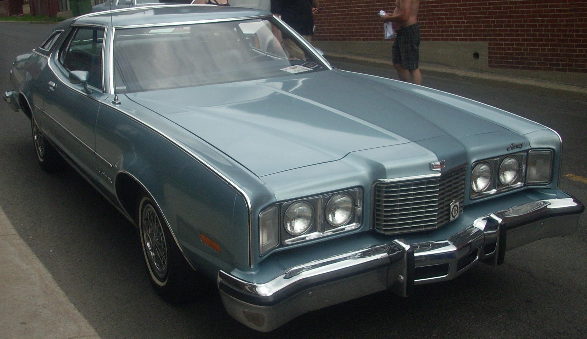 1975 Mercury Montego photographed in Ste. Anne De Bellevue, Quebec, Canada at Cruisin' At The Boardwalk 2010.